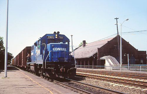 A Conrail freight train passes the then-closed Attleboro station in July 1983